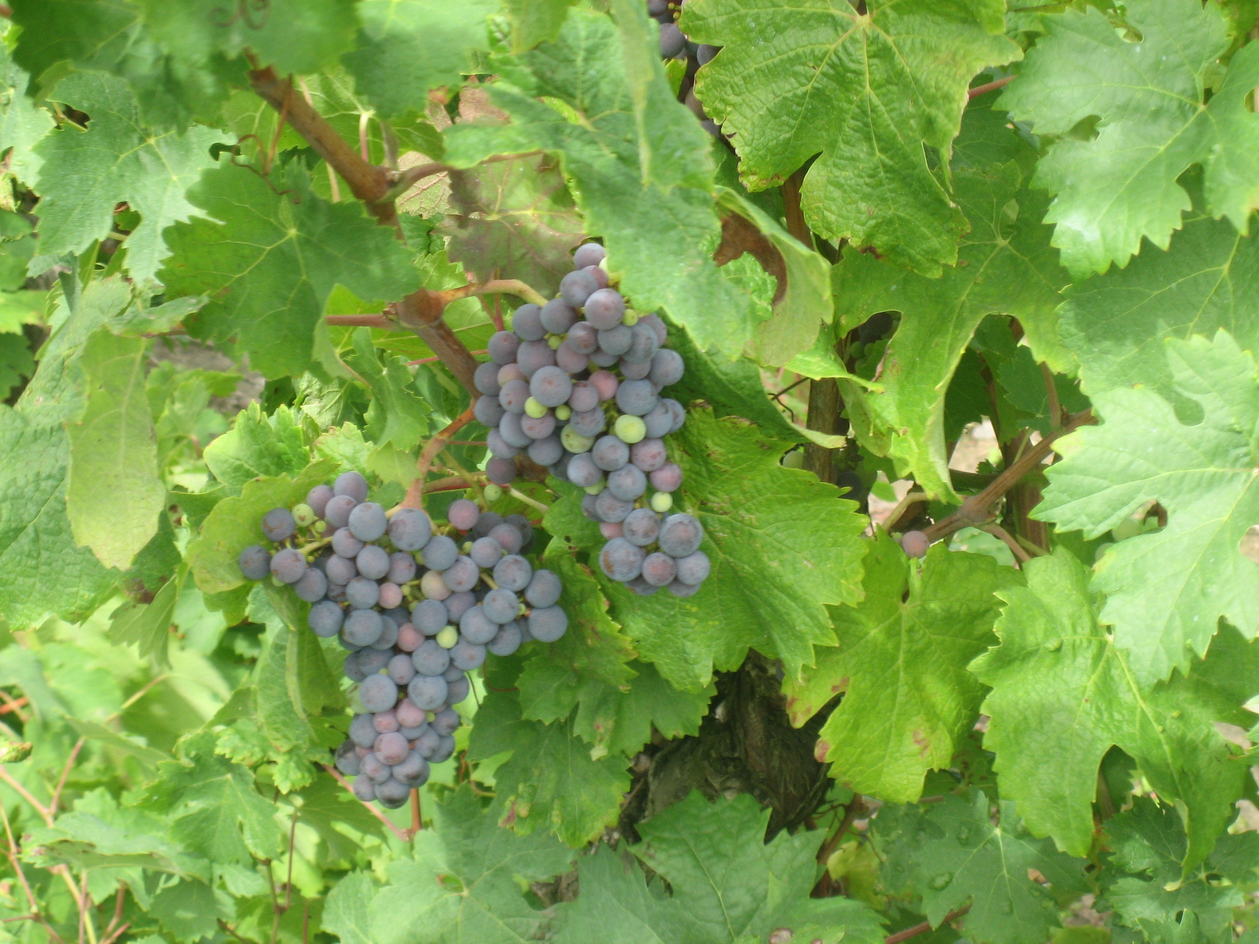 Carménère grapes.